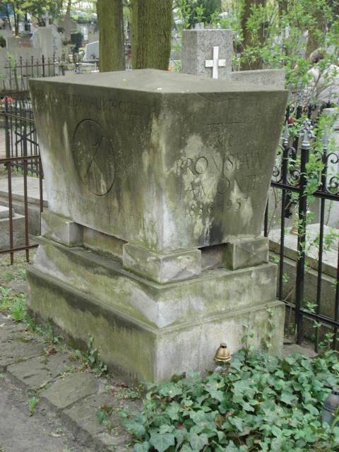 Gravestone of painter Prof. Bronisław Jamontt at the St.George Cemetery in Toruń